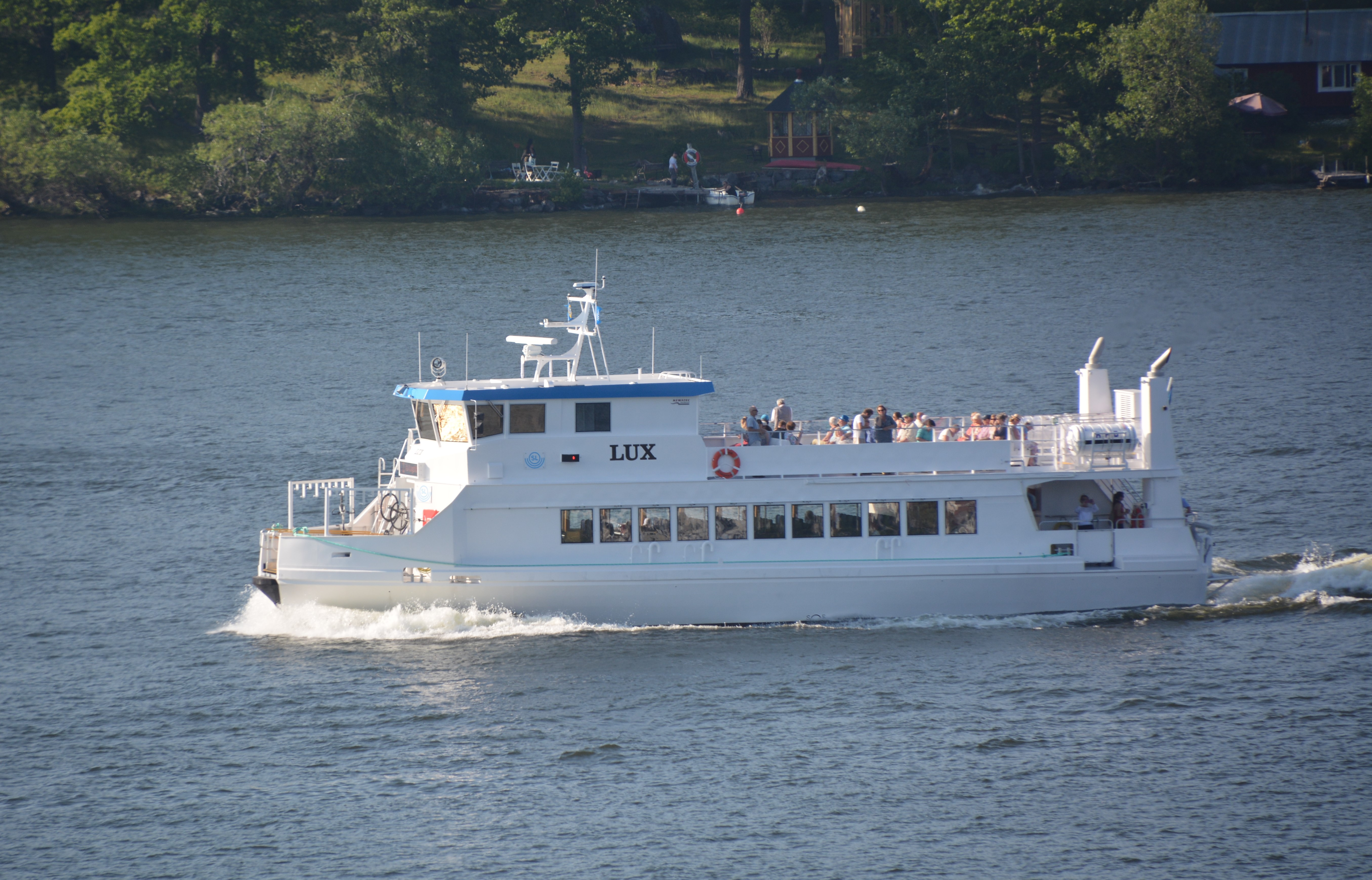 M/S Lux at Lake ;Mälaren outside Björnholmen in Ekerö munmicipality